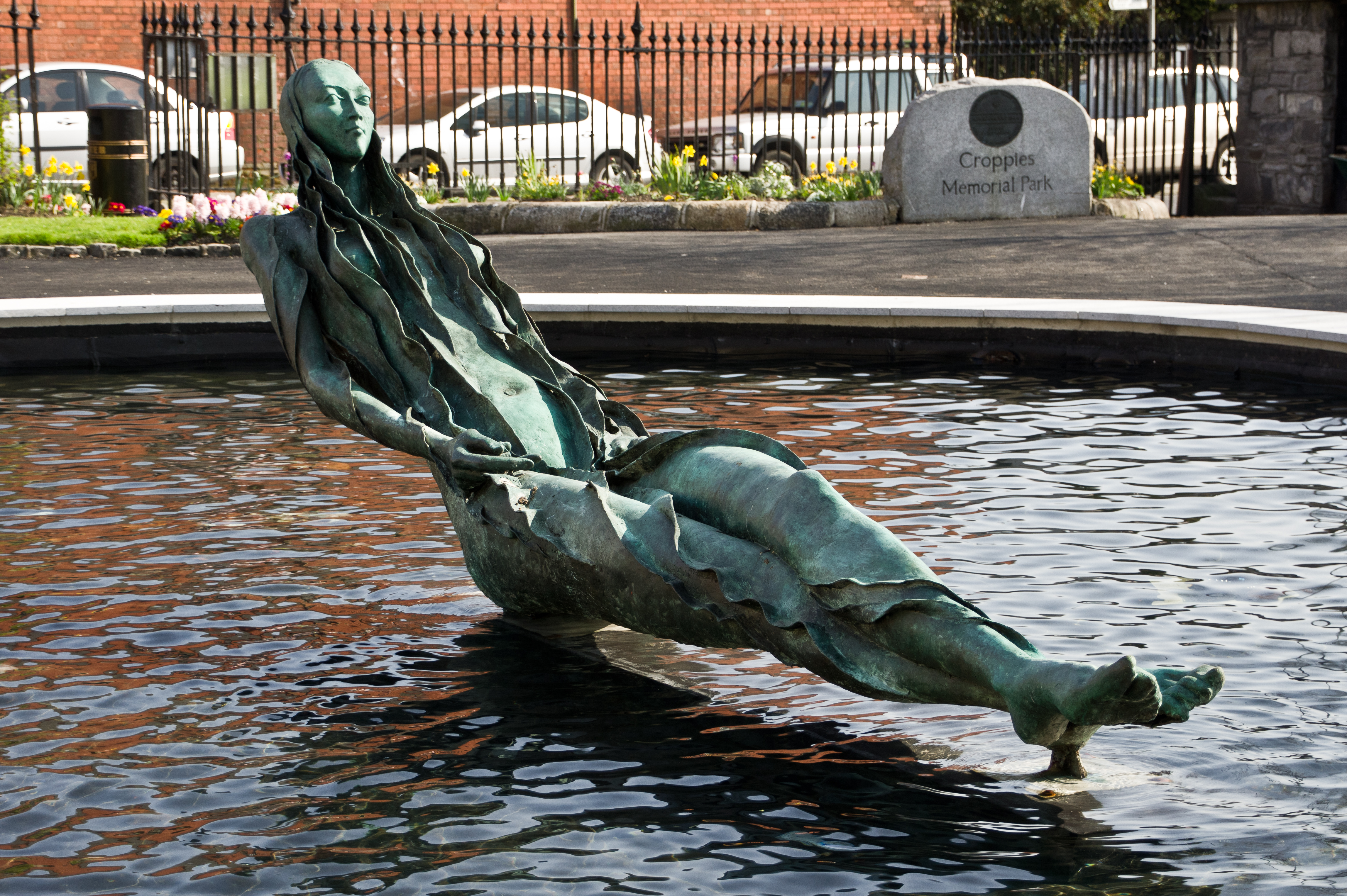 The sculpture Anna Livia by Éamonn O'Doherty, in Croppies Memorial Park, Dublin, Ireland